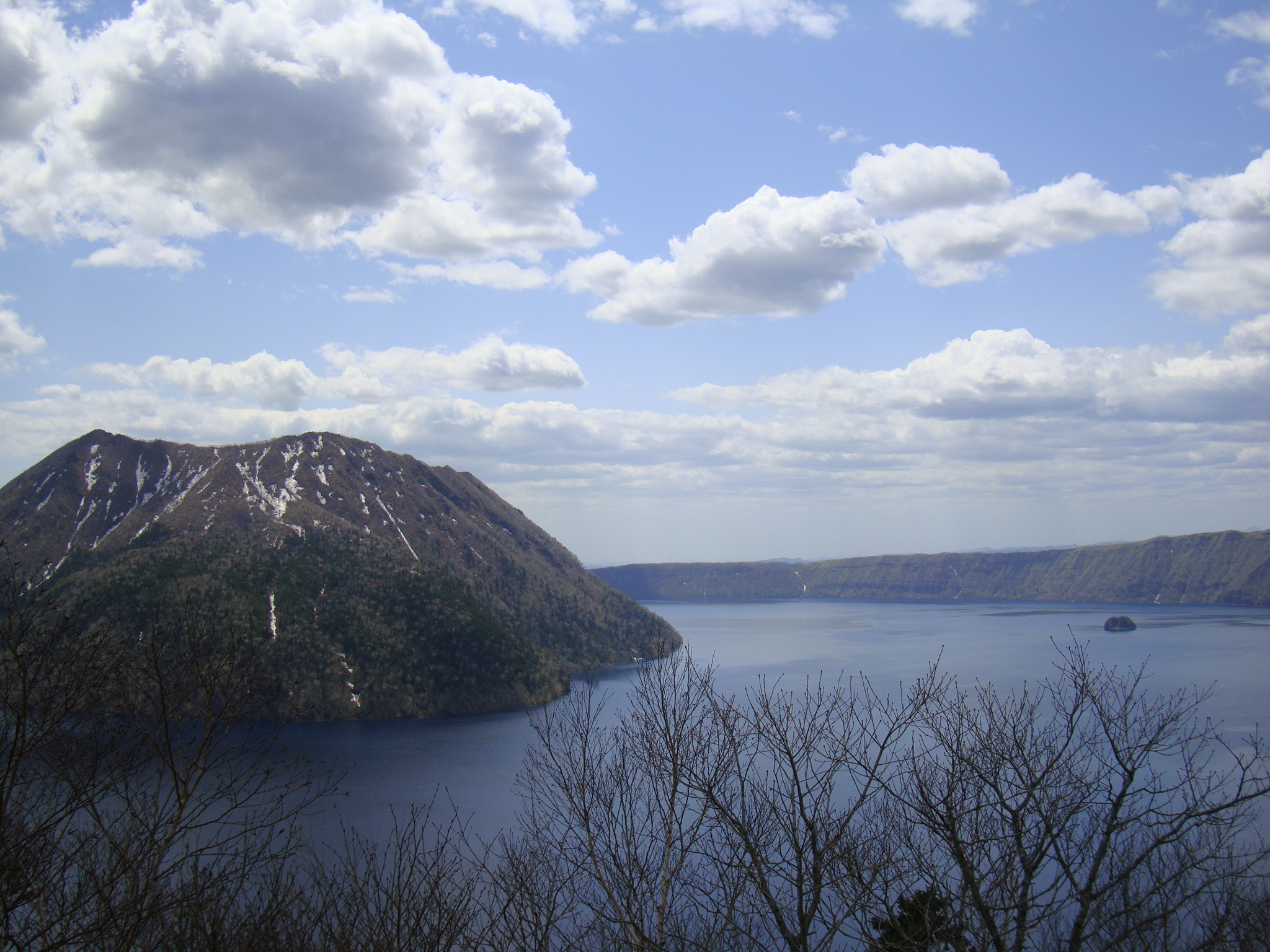 Lake Mashū "Ura-Mashū"